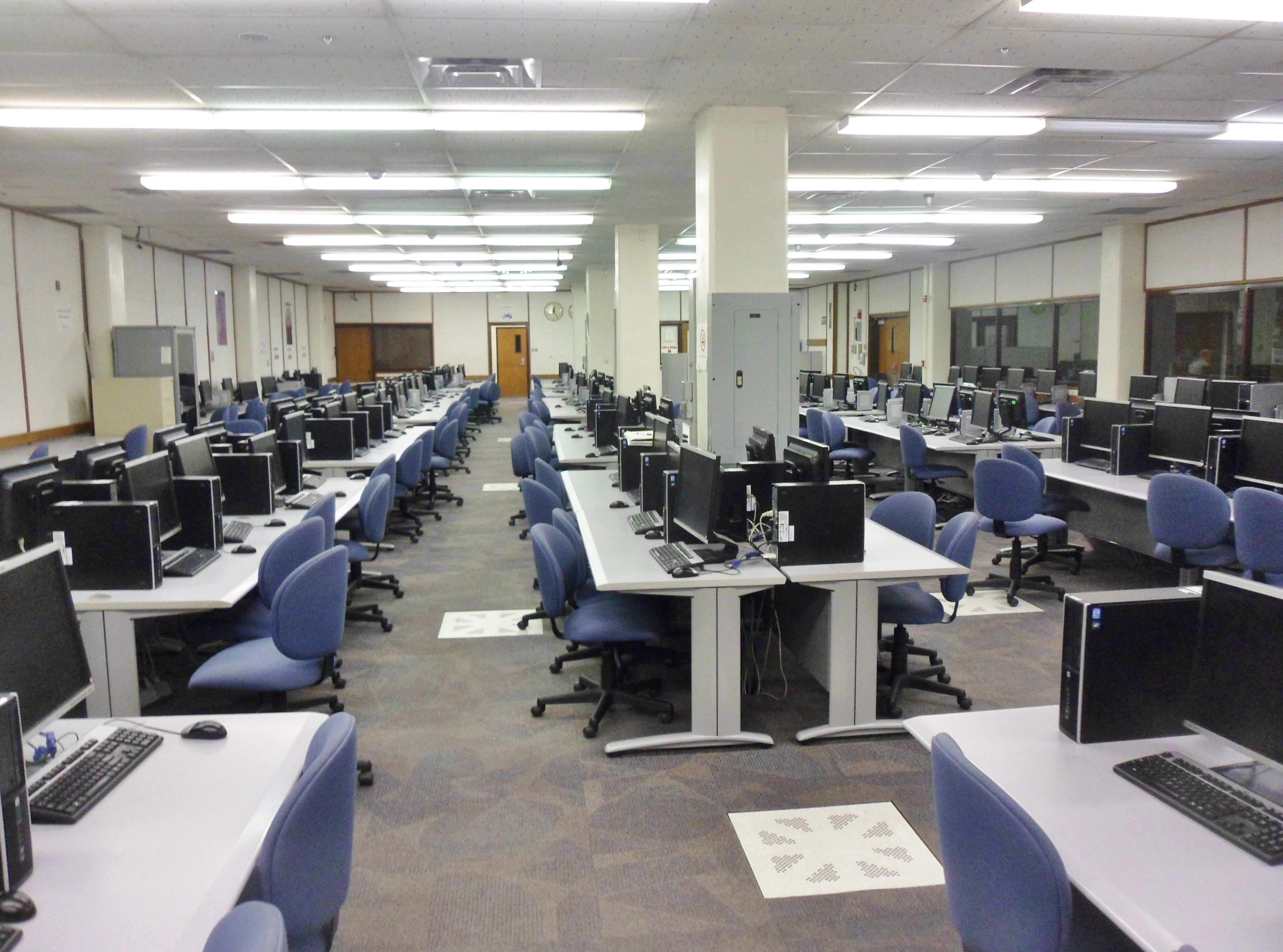 BYU 4th Floor CAEDM Computer Lab in the Clyde Building for use by all engineering disciplines